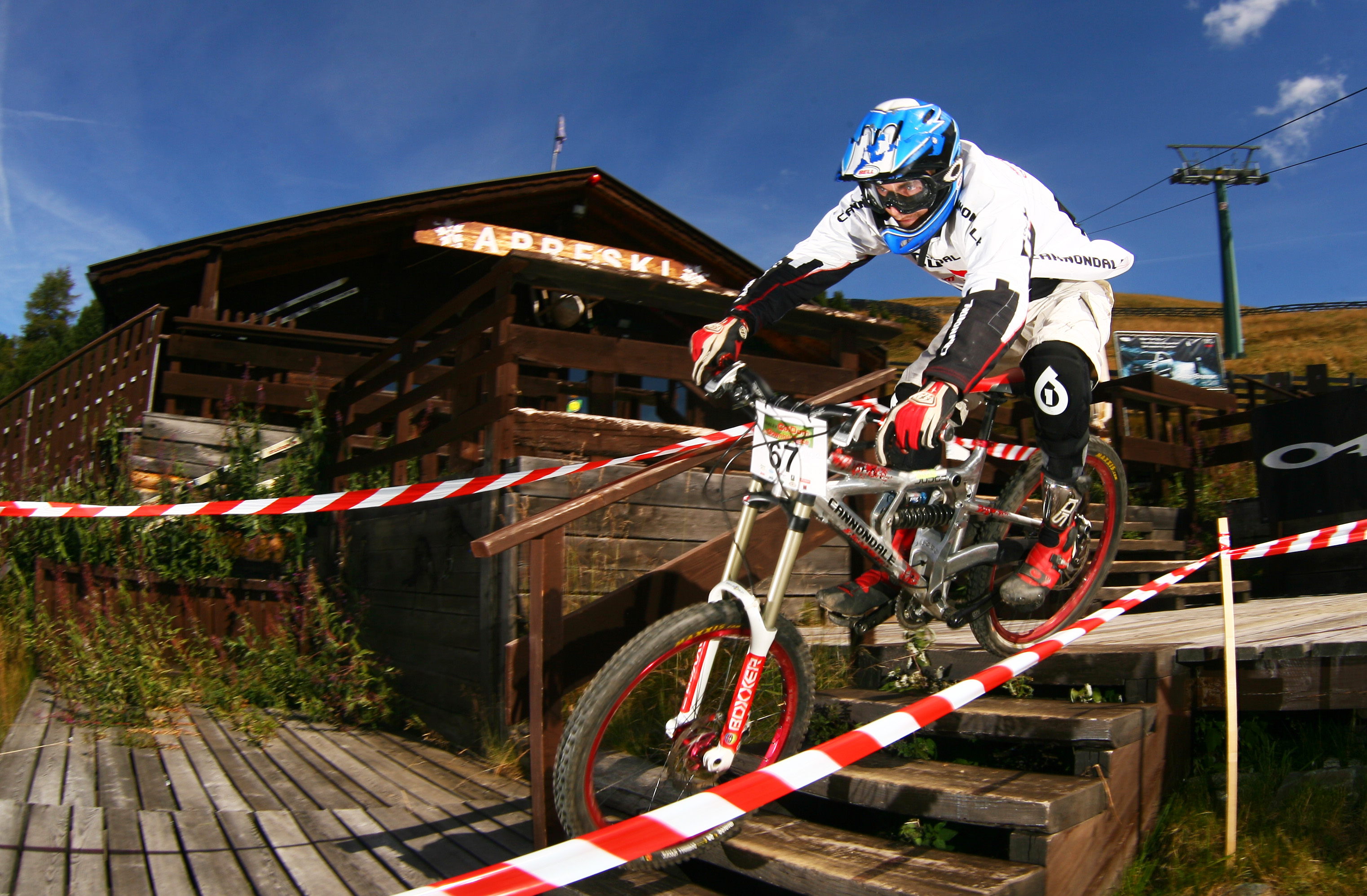 Rider: Maxi Dickerhoff.